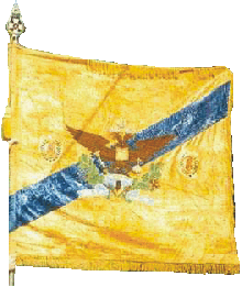 Colour of the Ussuri Cossack troops